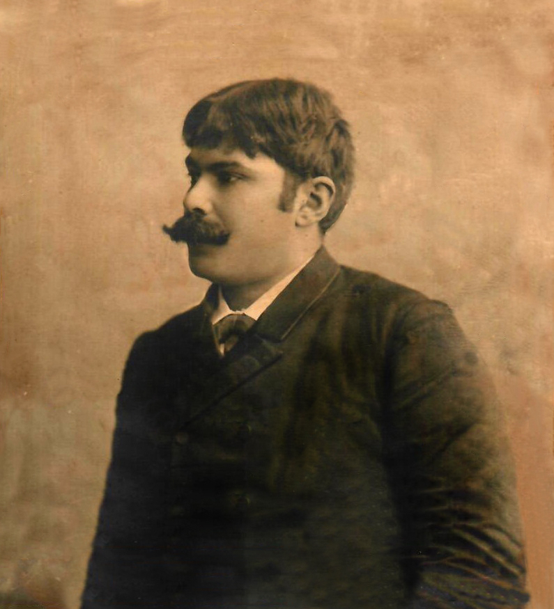 Portrait of Artist Hasan Rıza